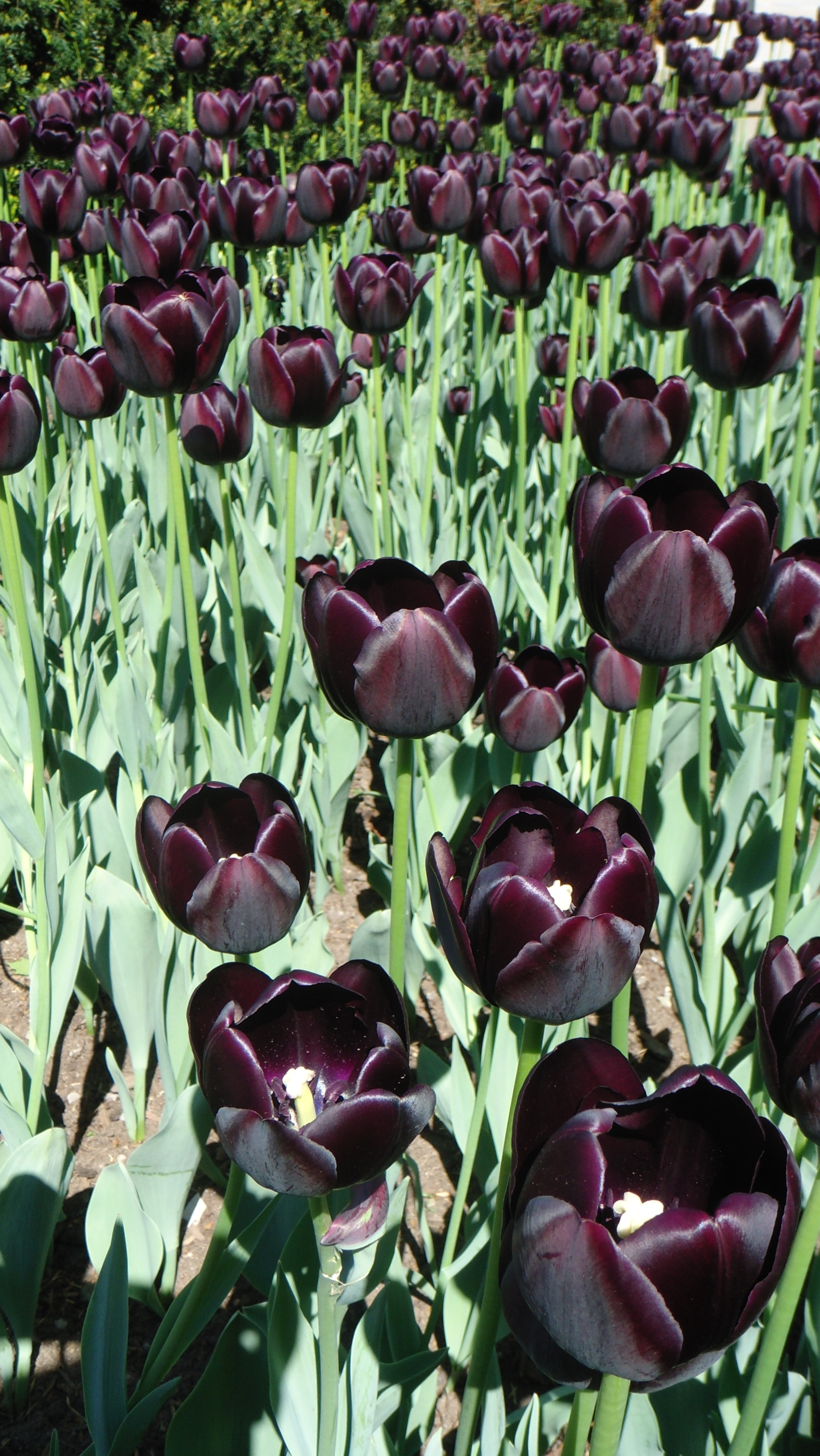 Black tulip in Ottawa